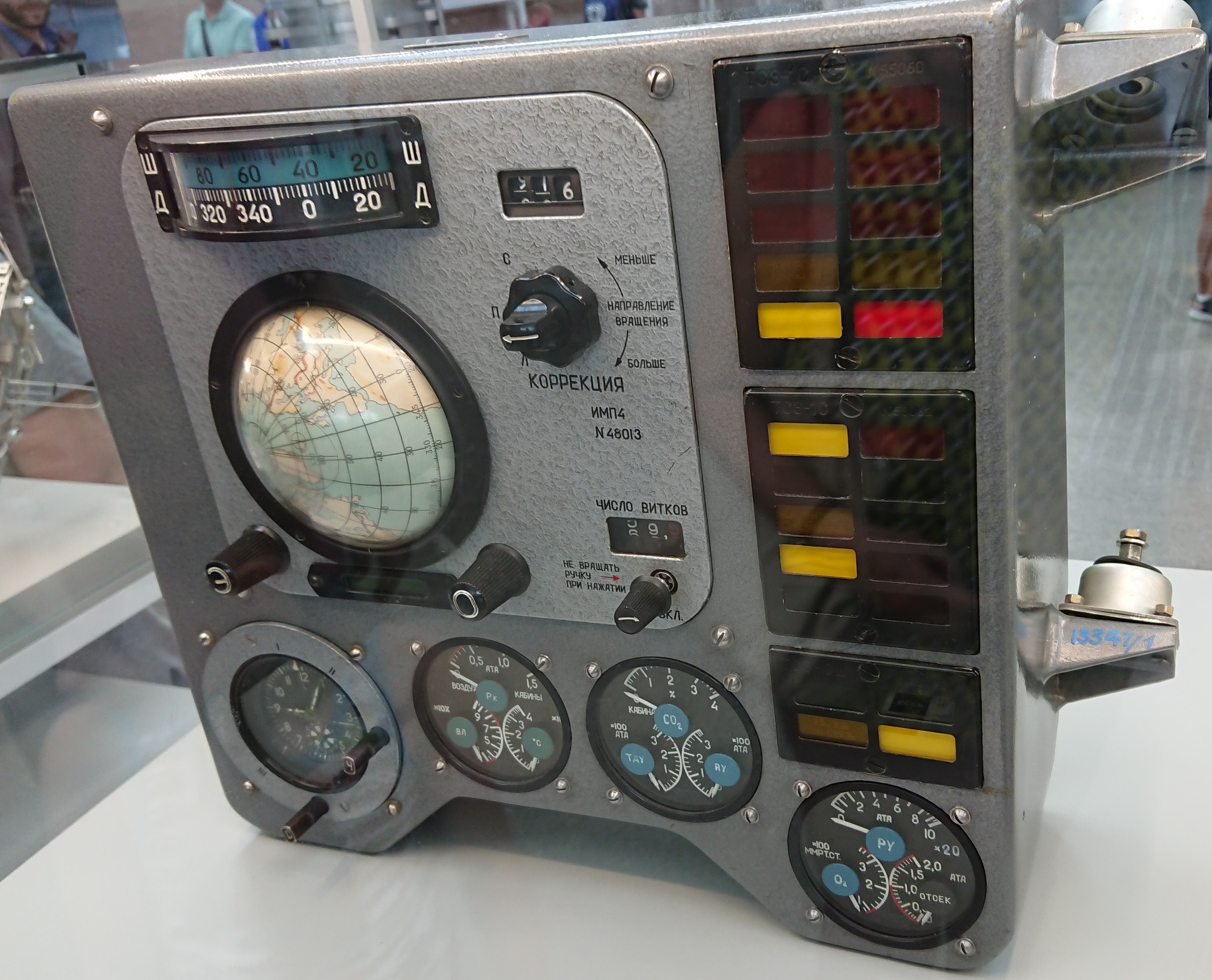 Instrument panel of the spacecraft Vostok (3 KA). SOKB Space Technology (JSC Research Institute of Aviation Equipment). Collection of the Polytech. Russia, Moscow, BDNKh, Pavilion № 32 "Cosmos".